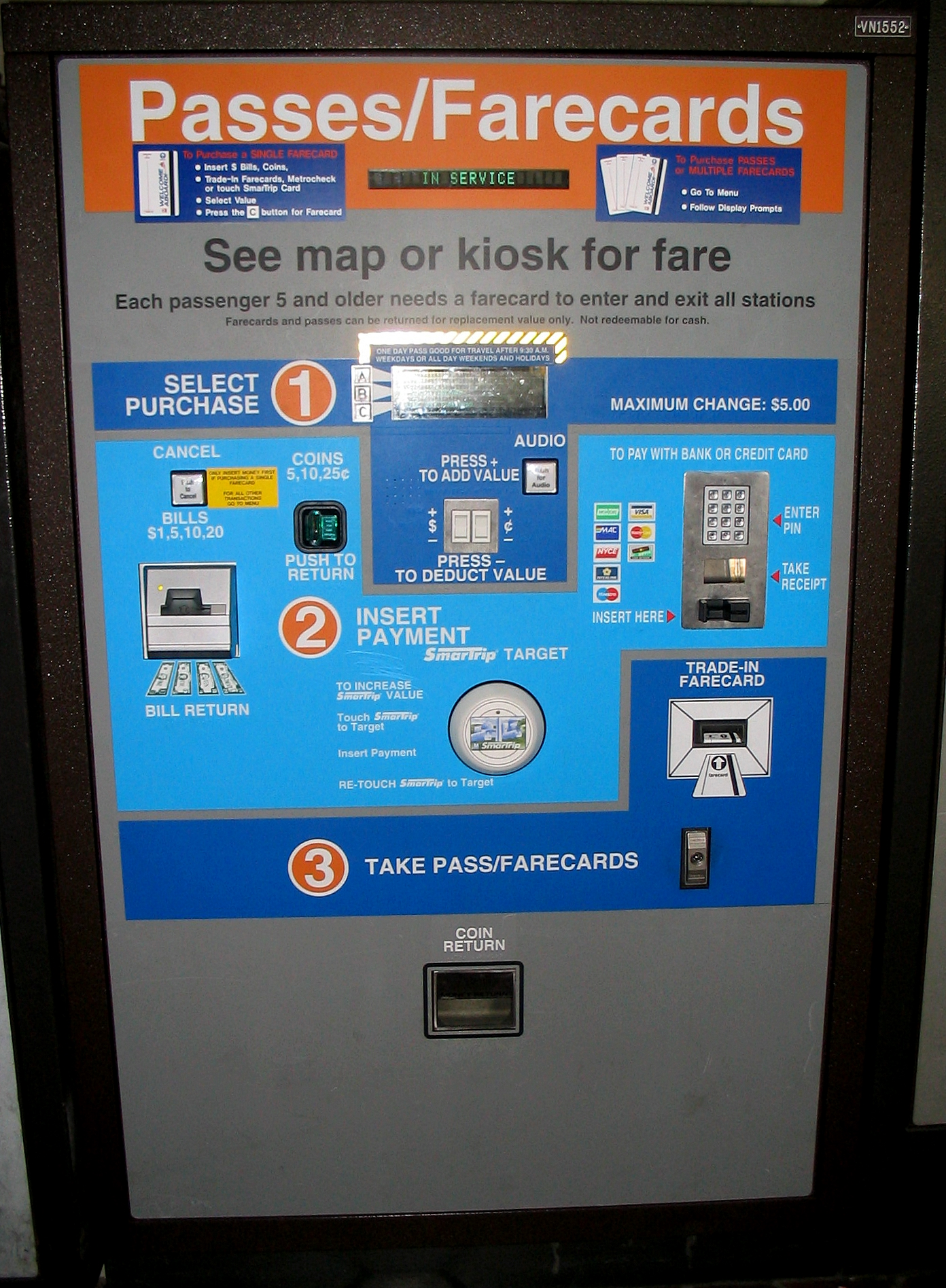 A farecard machine (providing paper cards) for the Washington Metro system in Washington, D.C. The machine also allows customers to add value to SmarTrip cards {reloadable "smart cards").